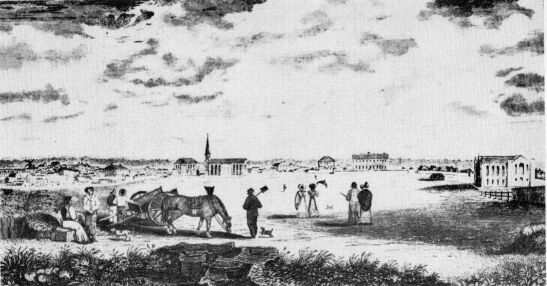 Sydney, about 1828, looking north over Hyde Park, Sydney towards the harbour.